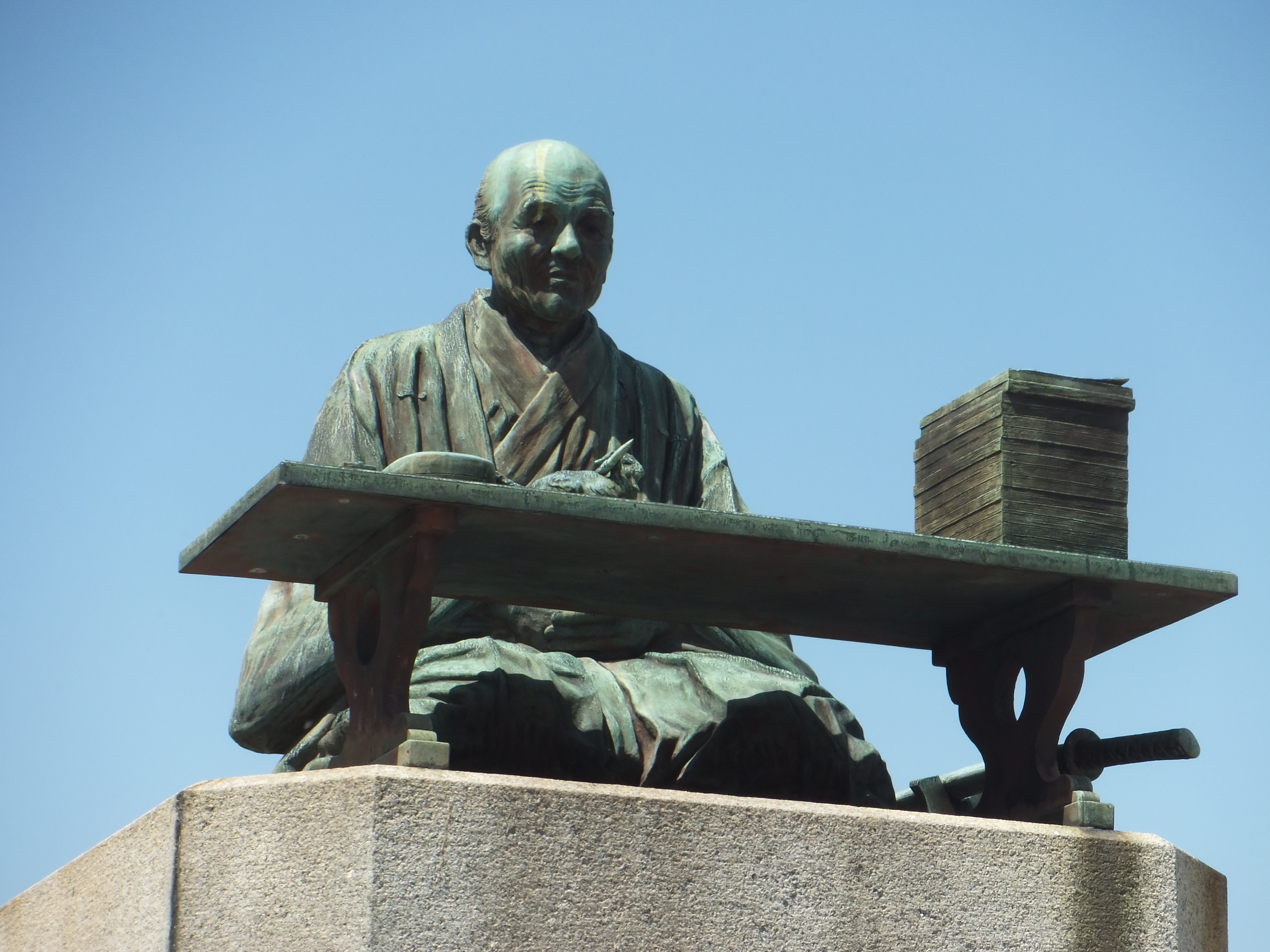 Photo: Bronze monument of Kaibara Ekiken/Ekken (1630-1714) at his gravesite in the Kinryū-Temple (Fukuoka City, Japan). Kaibara was a Japanese Neo-Confucianist philosopher and botanist.